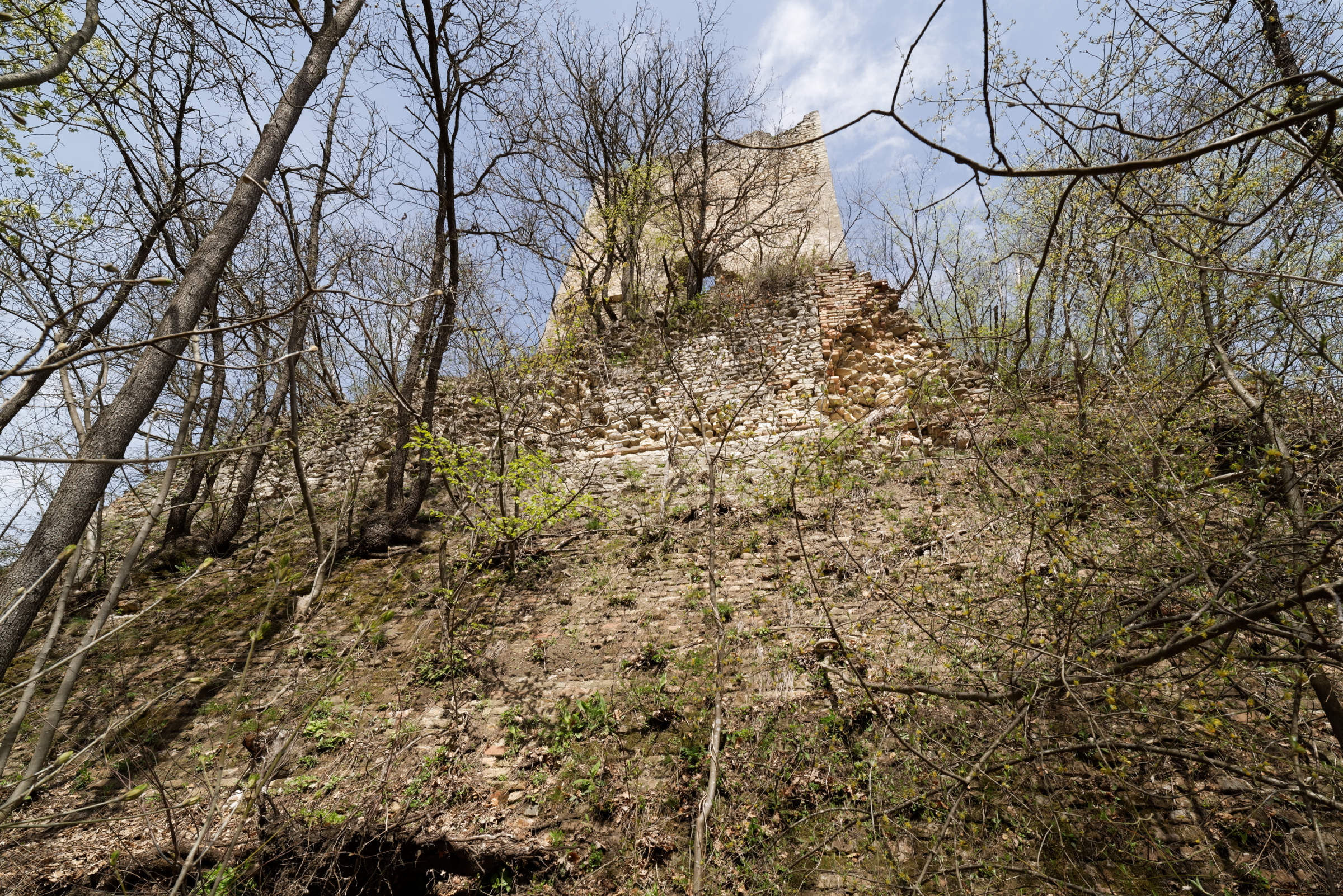 Castle of Varano Marchesi (PR), Italy.